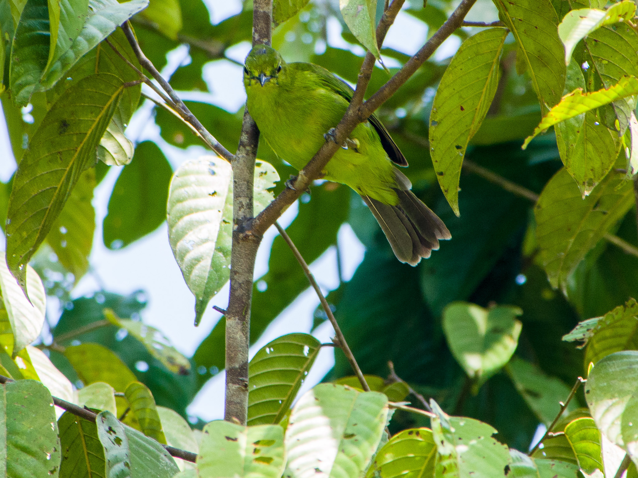 Showing why it's called a "leaf" bird!